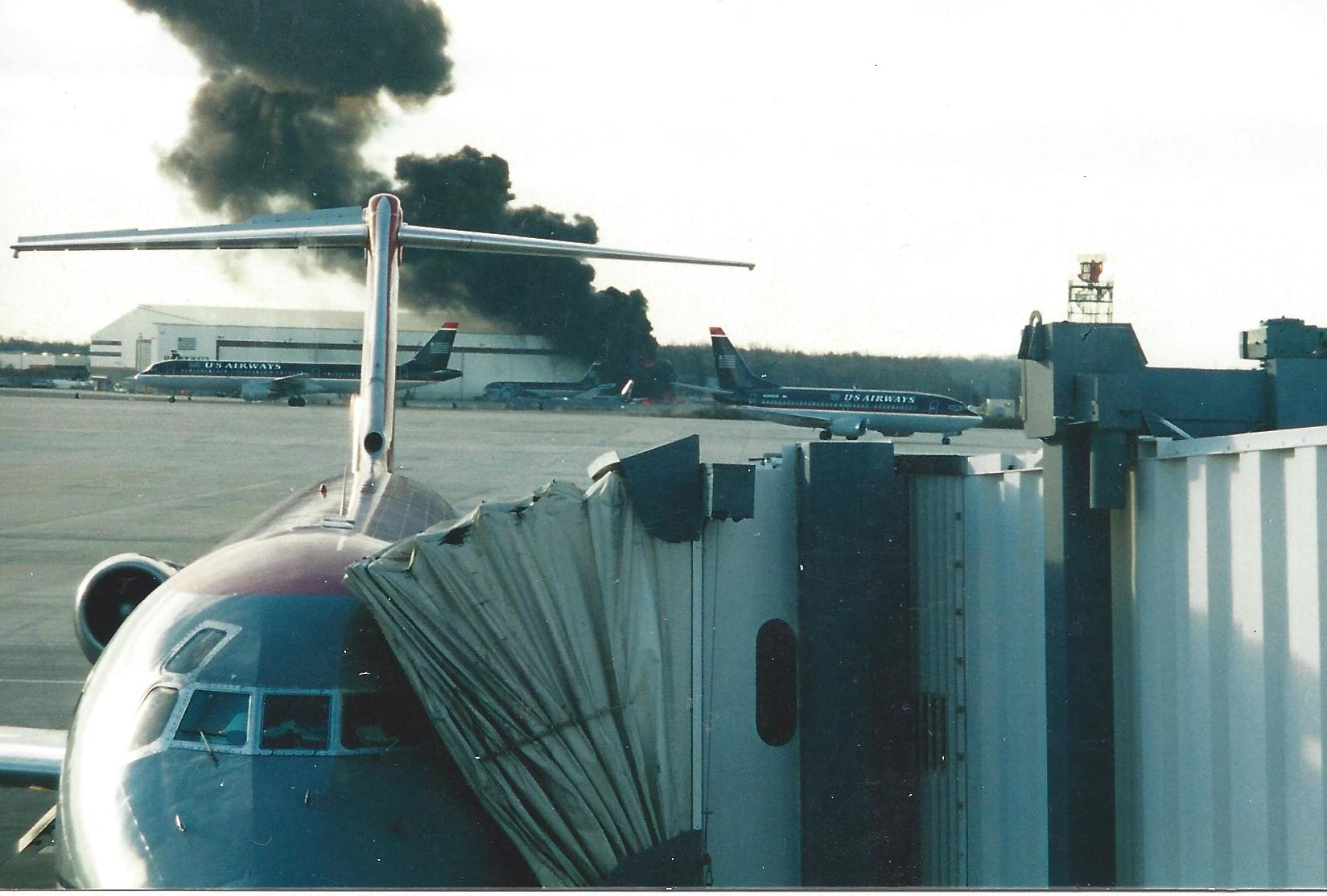 Air Midwest Flight 5481 Crashed the morning of 01/08/2003- CLT Airport